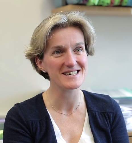 Helen McShane from the video EXPOSED // Chapter 4 : The Last Mile